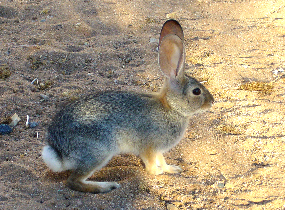 California Desert Cottentail on Alert.